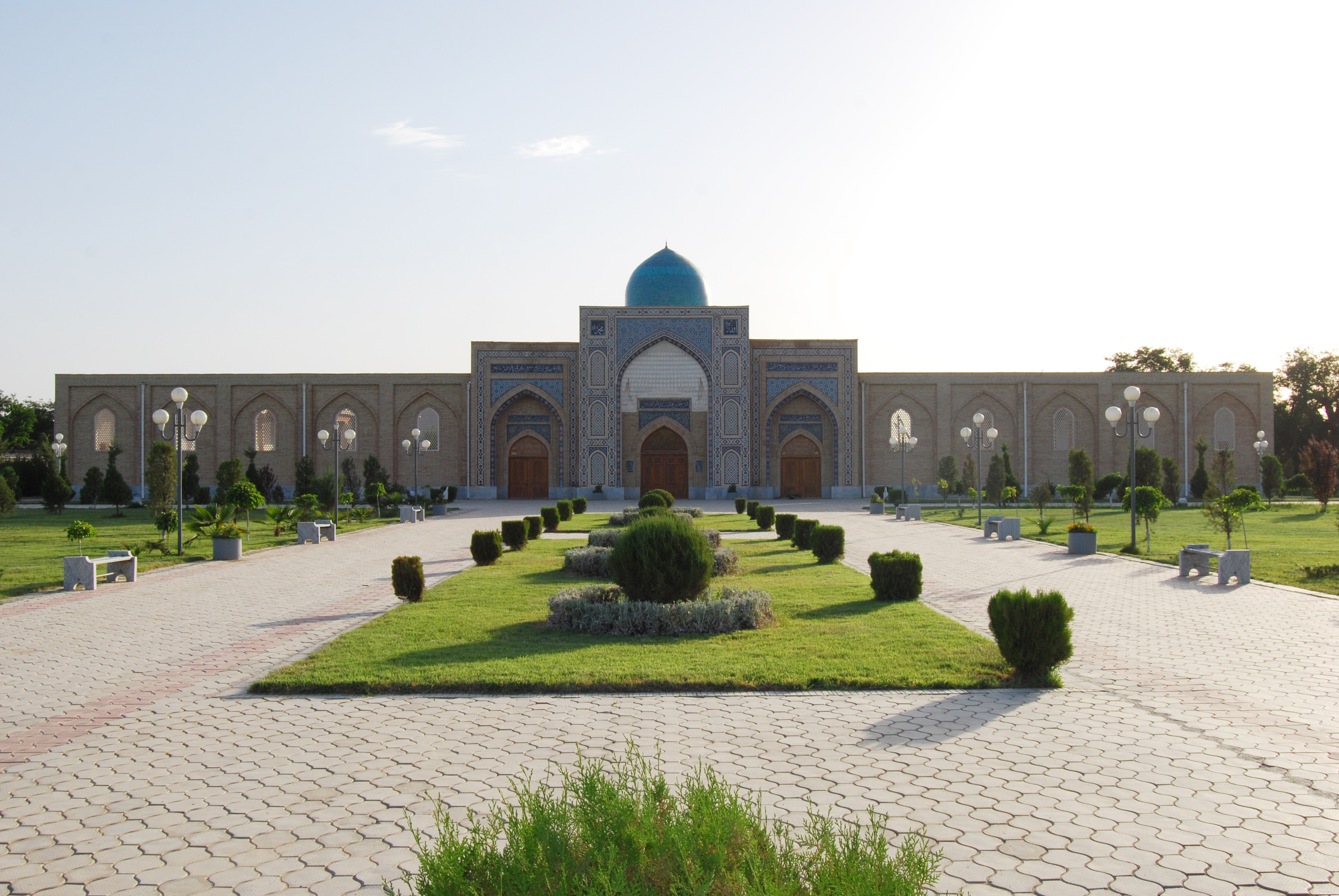 Qarshi